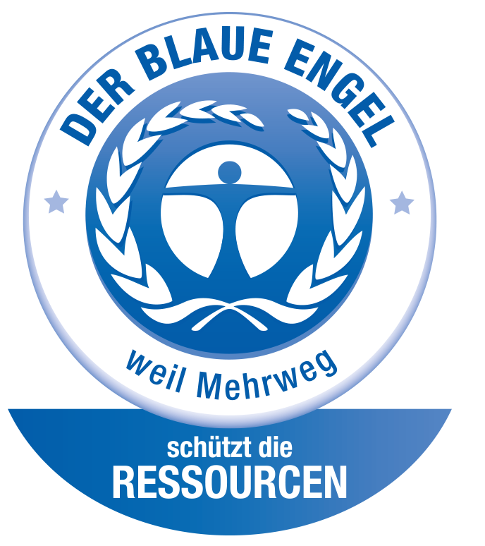 Label Blauer Engel, Mehrweg (Blue Angel (reusable packaging)) of the German Umweltbundesamt (Federal environment agency)